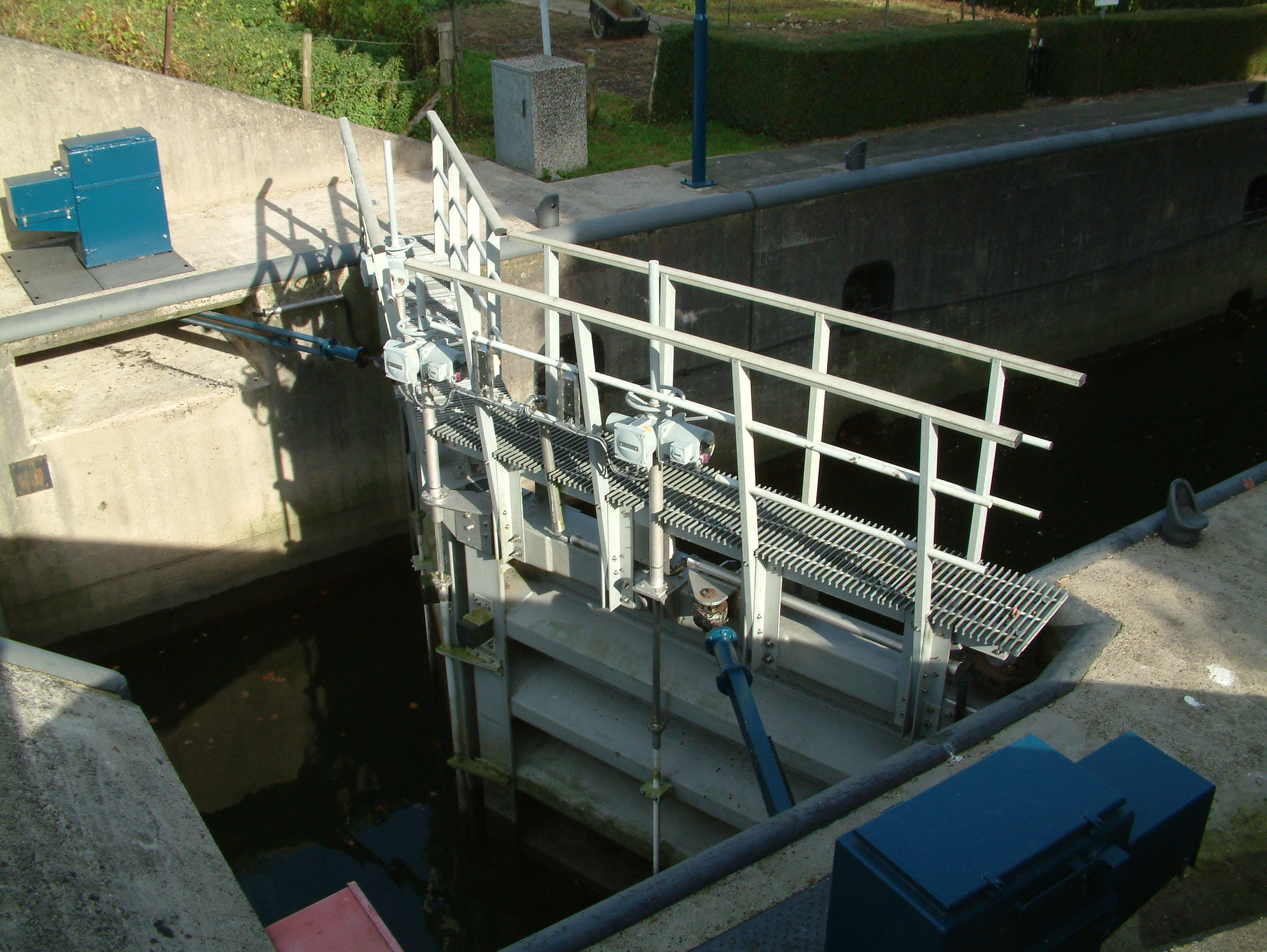 Actuators for the wickets (paddles) of the Spieringsluis lock (white wheels). The main gate actuators can also be seen (blue pistons).